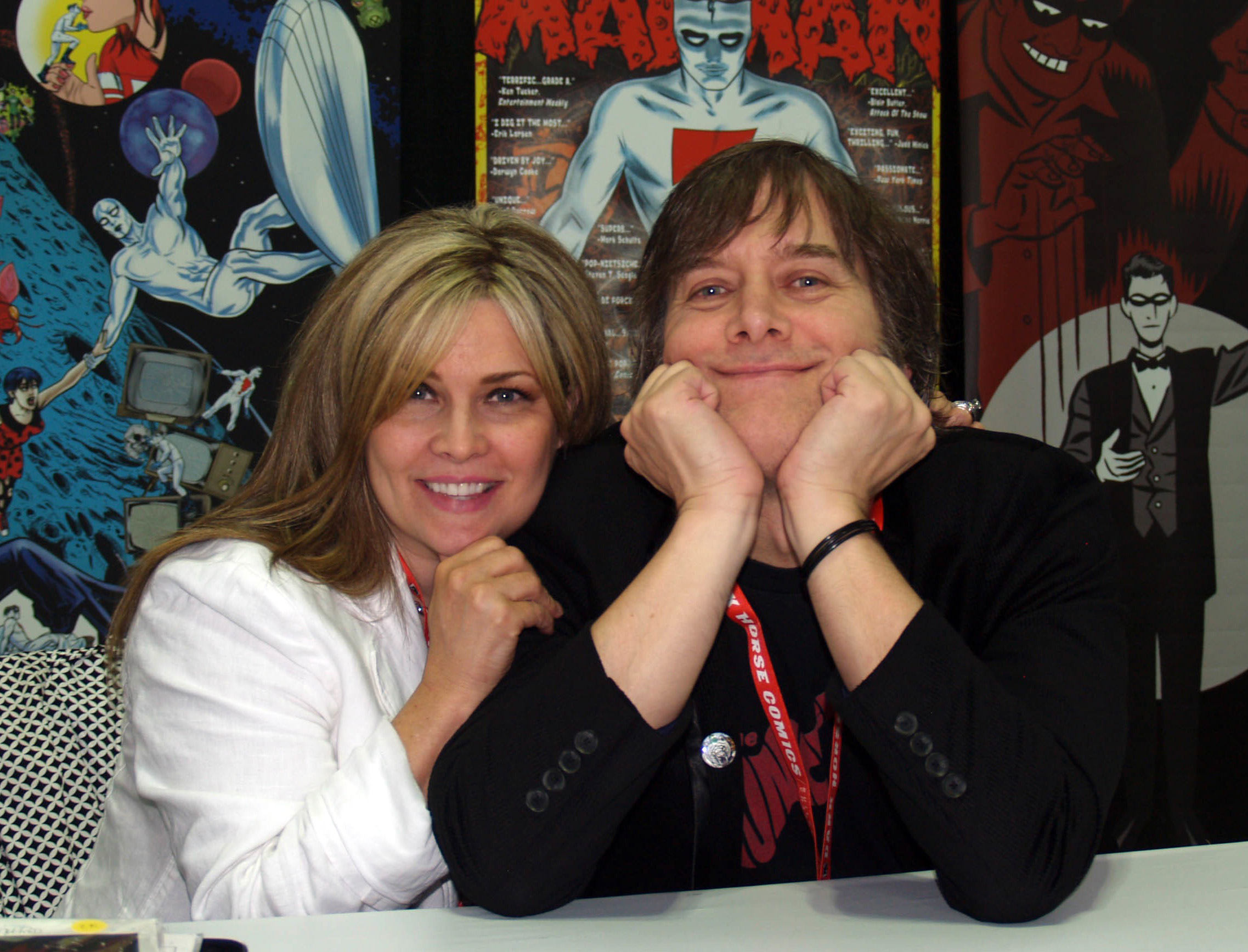 Husband and wife comics creators Laura Allred and Mike Allred on Saturday, June 14, 2014, Day 1 of Special Edition NYC, a comic book convention at the Jacob K. Javits Convention Center in Manhattan. This photo was created by Luigi Novi. It is not in the public domain, and use of this file outside of the licensing terms is a copyright violation.